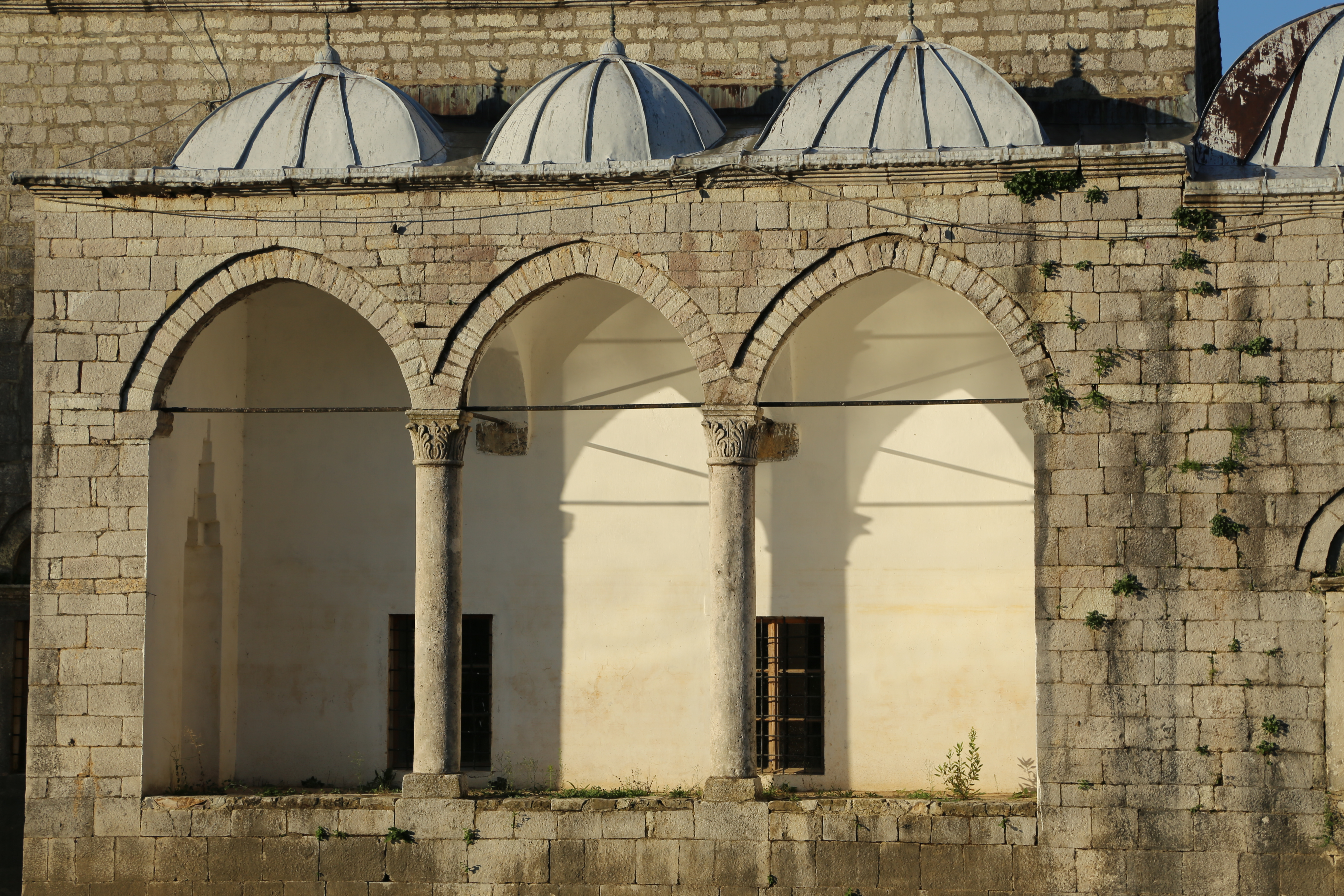 Lead Mosque, Shkodër